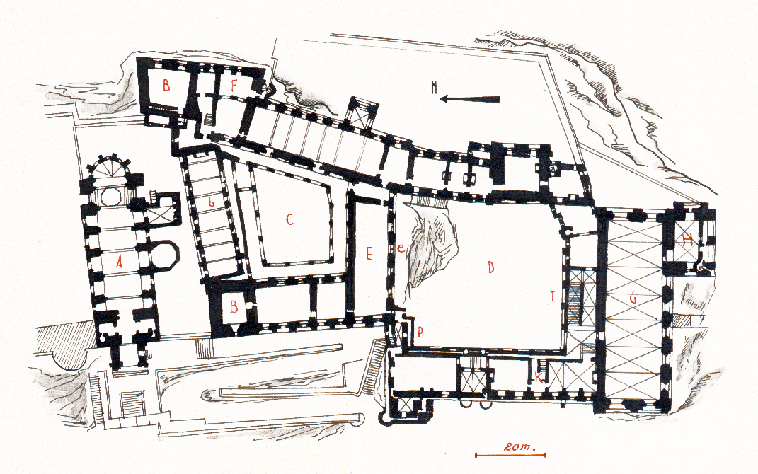 Le Palais des Papes à Avignon, drawing, work of Joseph Rosier based on « Dictionnaire raisonné de l'architecture » par E. Viollet-le-Duc